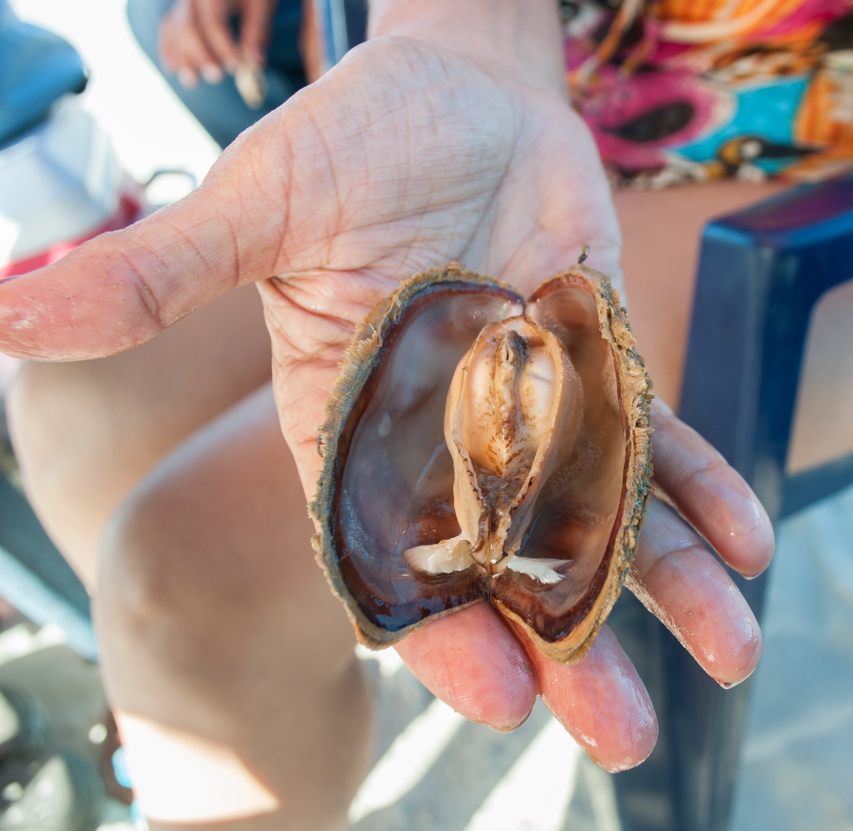 Pata e Cabra Food in Margarita island